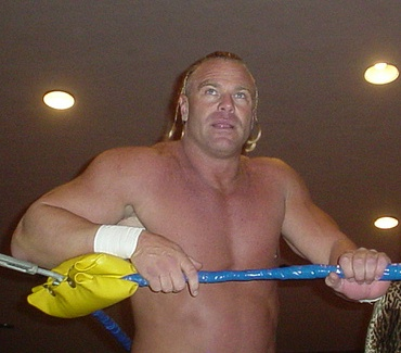 A cropped version of File:Kip James at NWA Cyberspace .jpg to get a better view of Kip James (Monty Sopp)'s face.